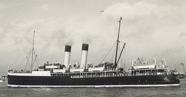 Bruges Built. 1920 Yard. Earle’s Operator. Great Eastern Railway Route. Harwich- Antwerp 1920-1940 Length. 321 ft. Gross Tonnage. 2,949 Passengers. 363 Speed. 21 Knots Status. Sunk 1940 T.S.S Bruges was built by John Brown and Company at Clydebank for the Harwich – Antwerp service. 1940, Allocated to move British troops from Le Havre to Cherbourg in June 1940, as the German army advanced from the east. While anchored off Le Havre on the morning of June 11, she received a direct hit from an aircraft bomb and was beached as a total loss.